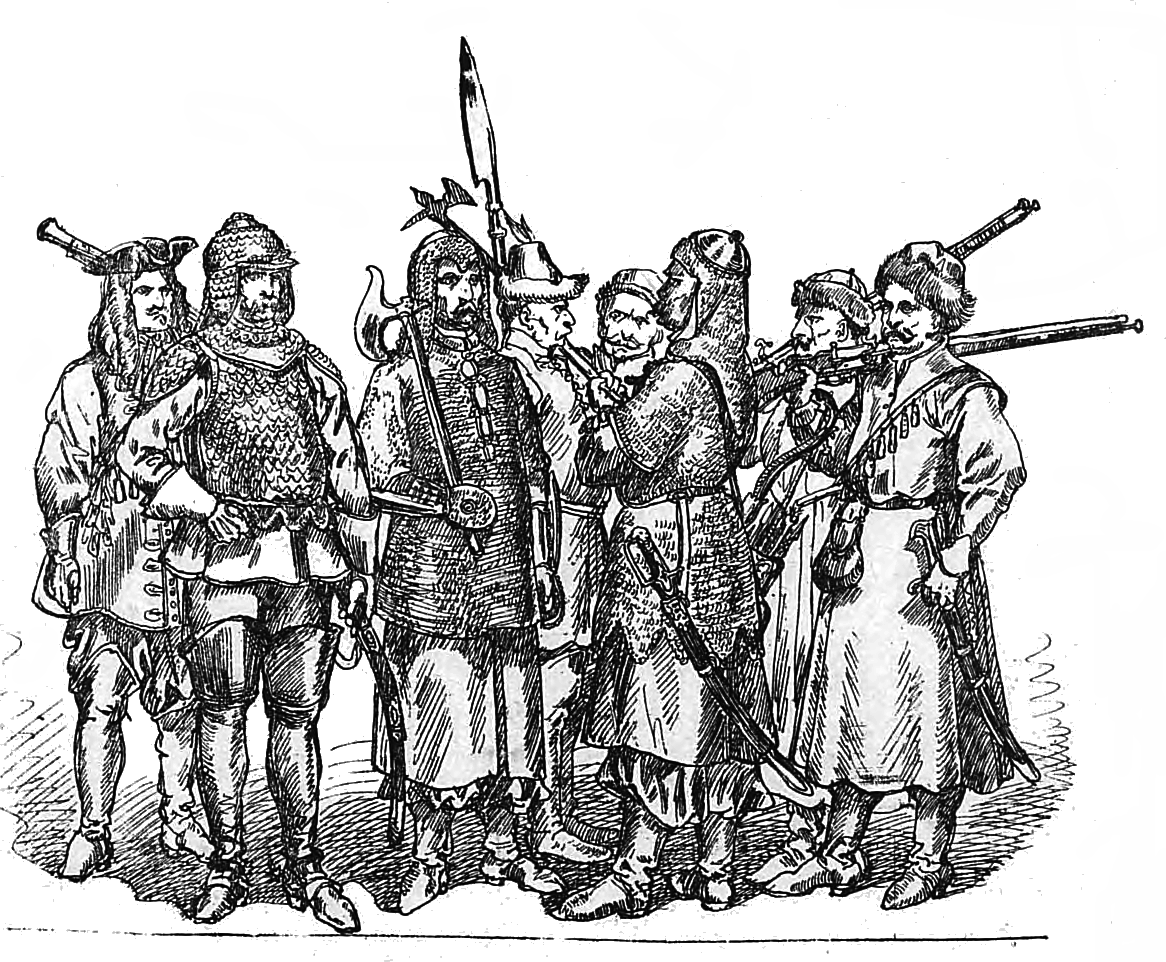 Polish soldiers 1674-1696